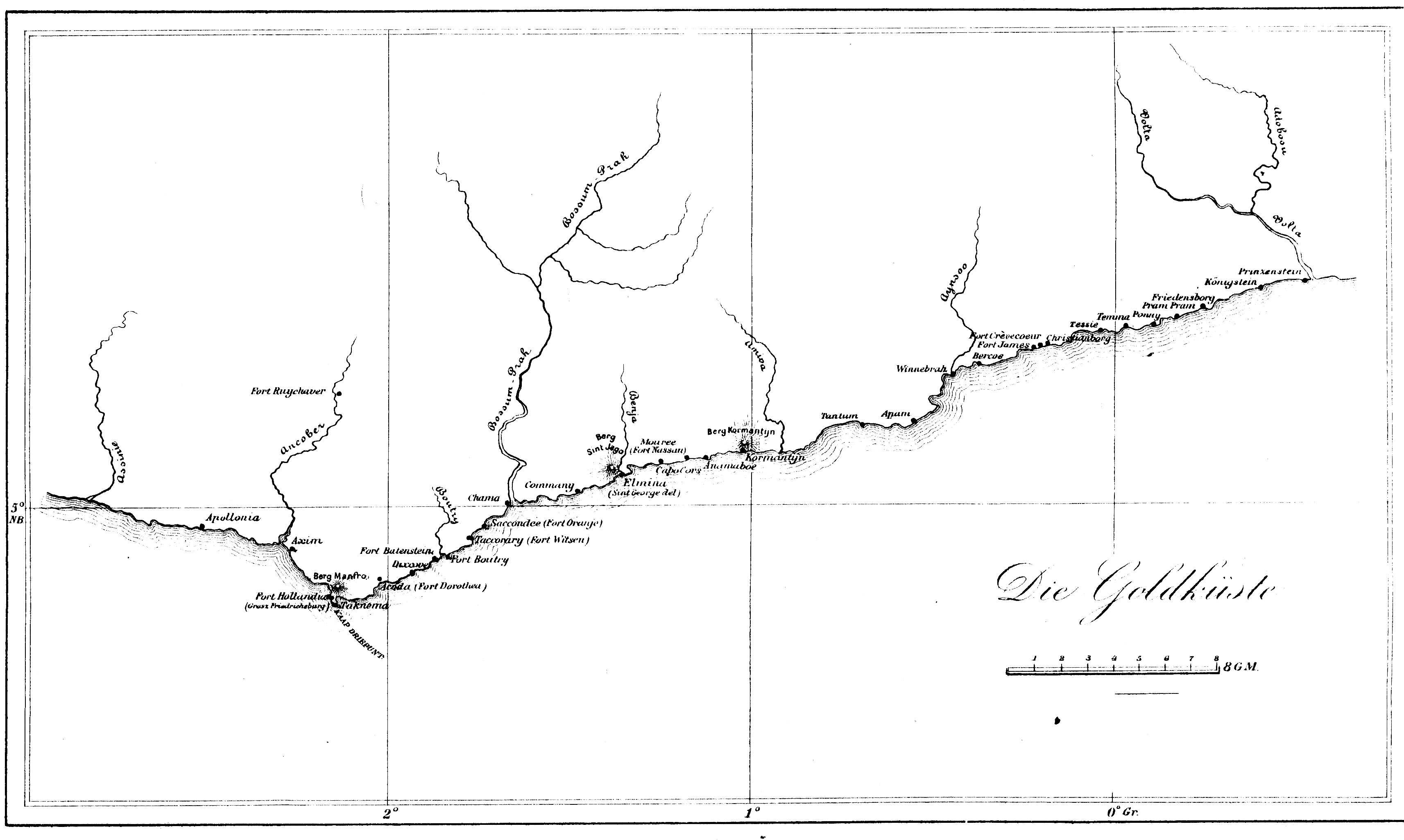 The position of the Dutch forts on the Gold Coast in the course the history and some others, which in terms of the History of the Dutchman in this part of West Africa are important.